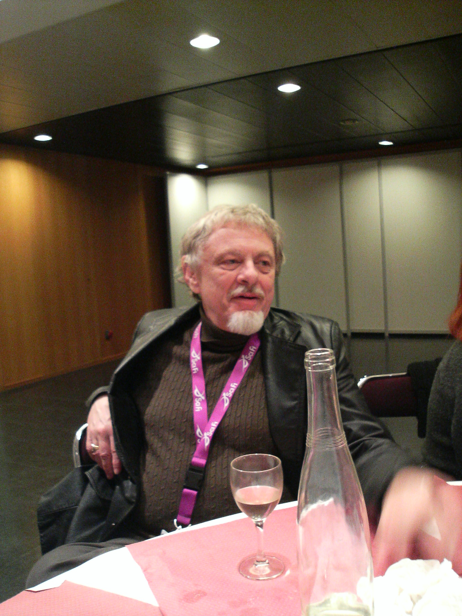 Norman Spinrad